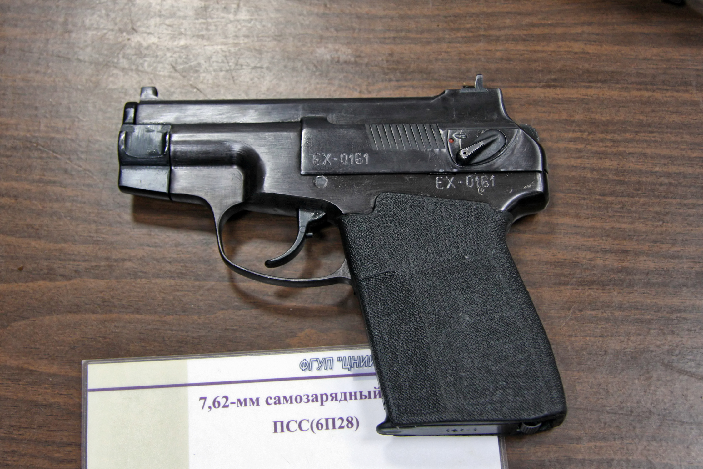 PSS pistol - TSNIITOCHMASH